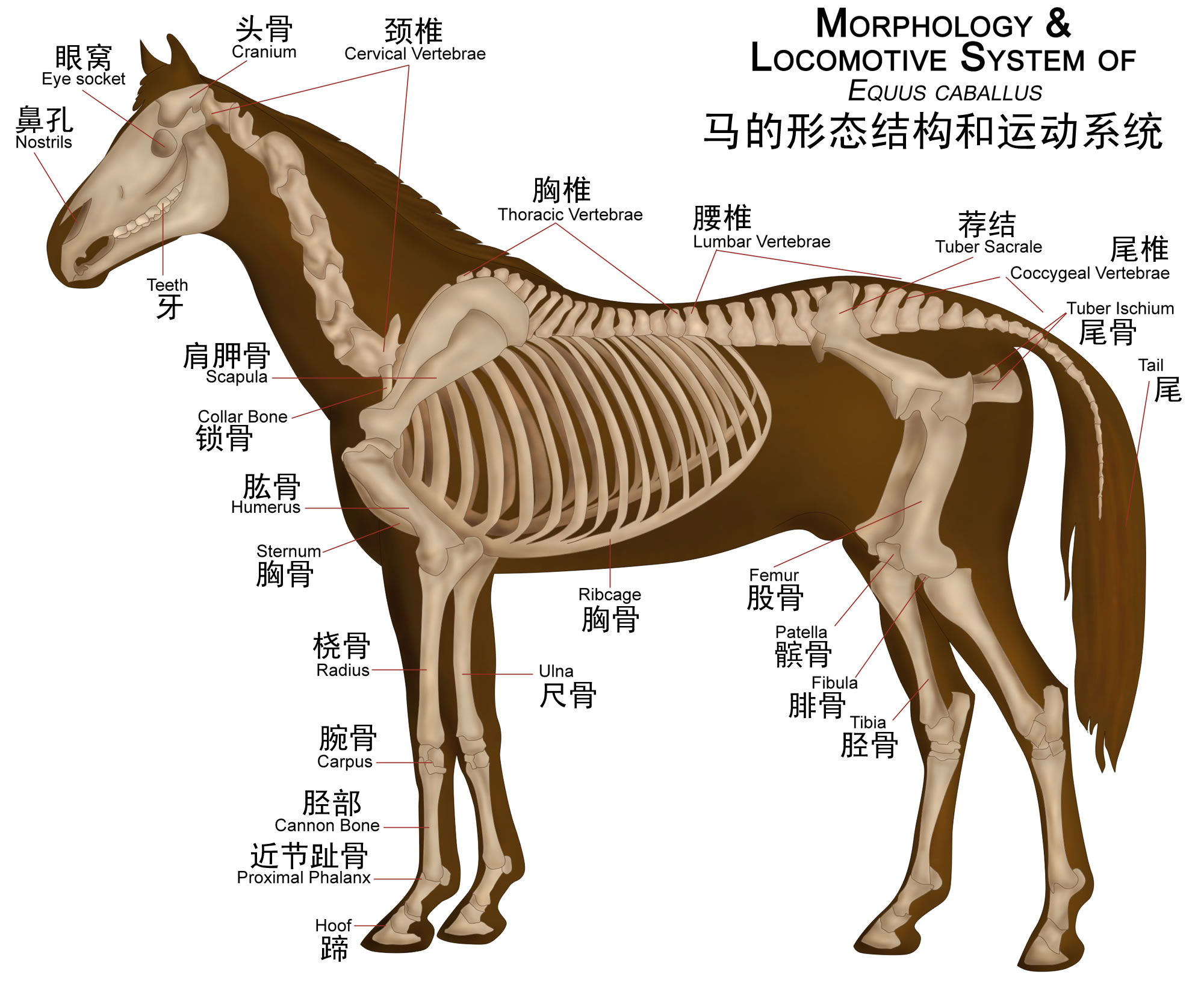 Morphology and Locomotive system of Equus Callibus (a common horse). Image:Horseanatomy.png 马的形态结构和运动系统（由WikipedianProlific首创）添加中文注释 username from projectcode, the copyright holder of this work, hereby publishes it under the following license: Attribution: username from projectcode